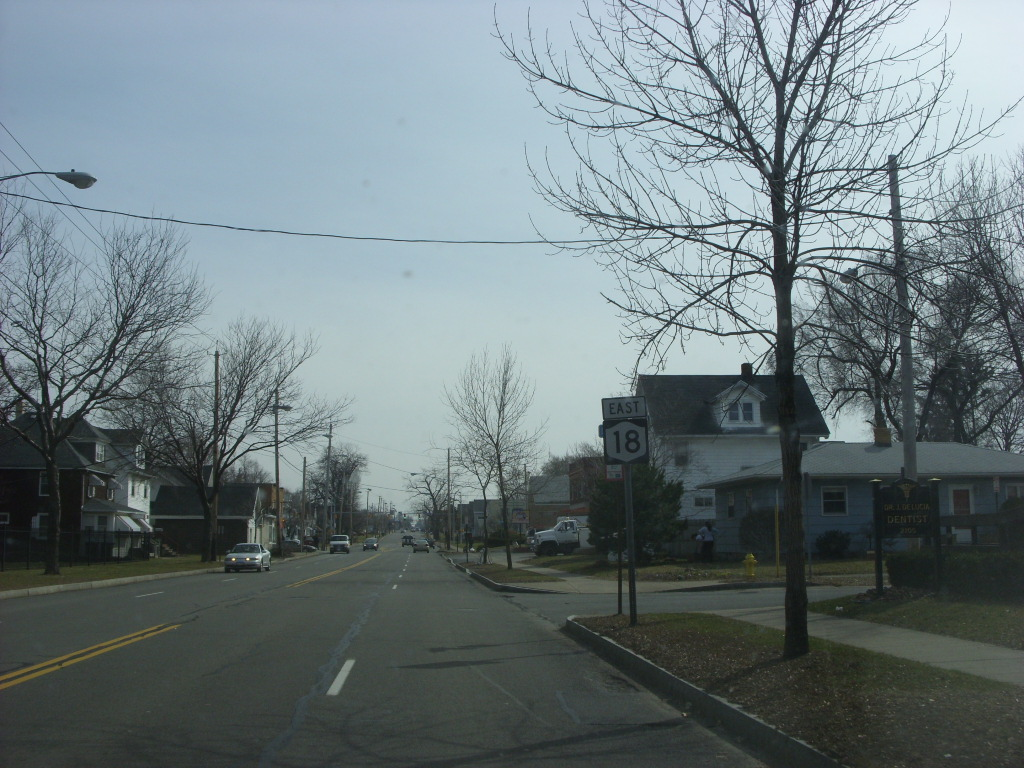 Eastbound on New York State Route 18 in Rochester. NY 18 ends at New York State Route 104 less than a half-mile south of this location.